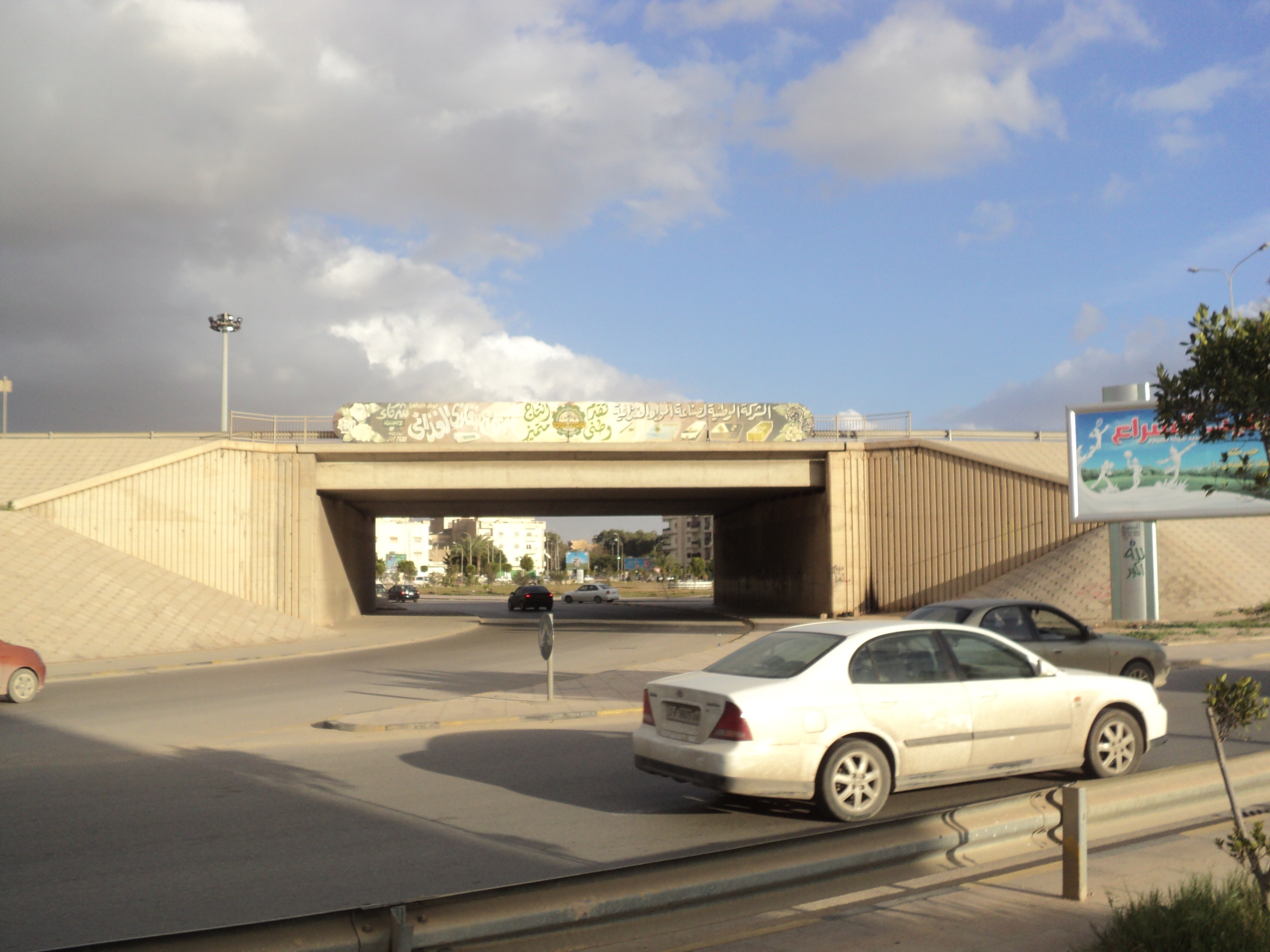 Al Jalaa roundabout (near Ras Ubaida), Benghazi.